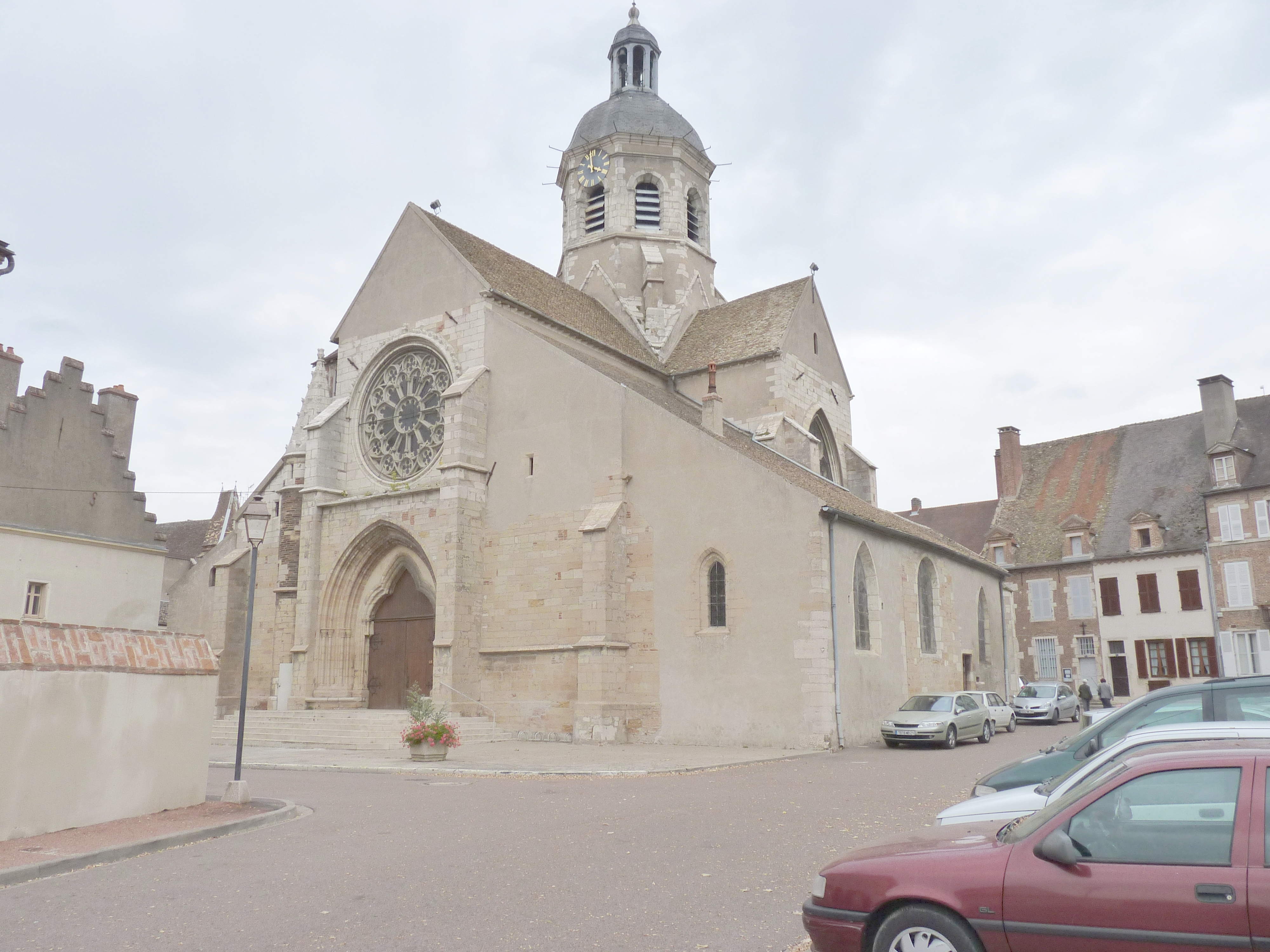 Church of Seurre (Côte d'Or, Burgundy, France)